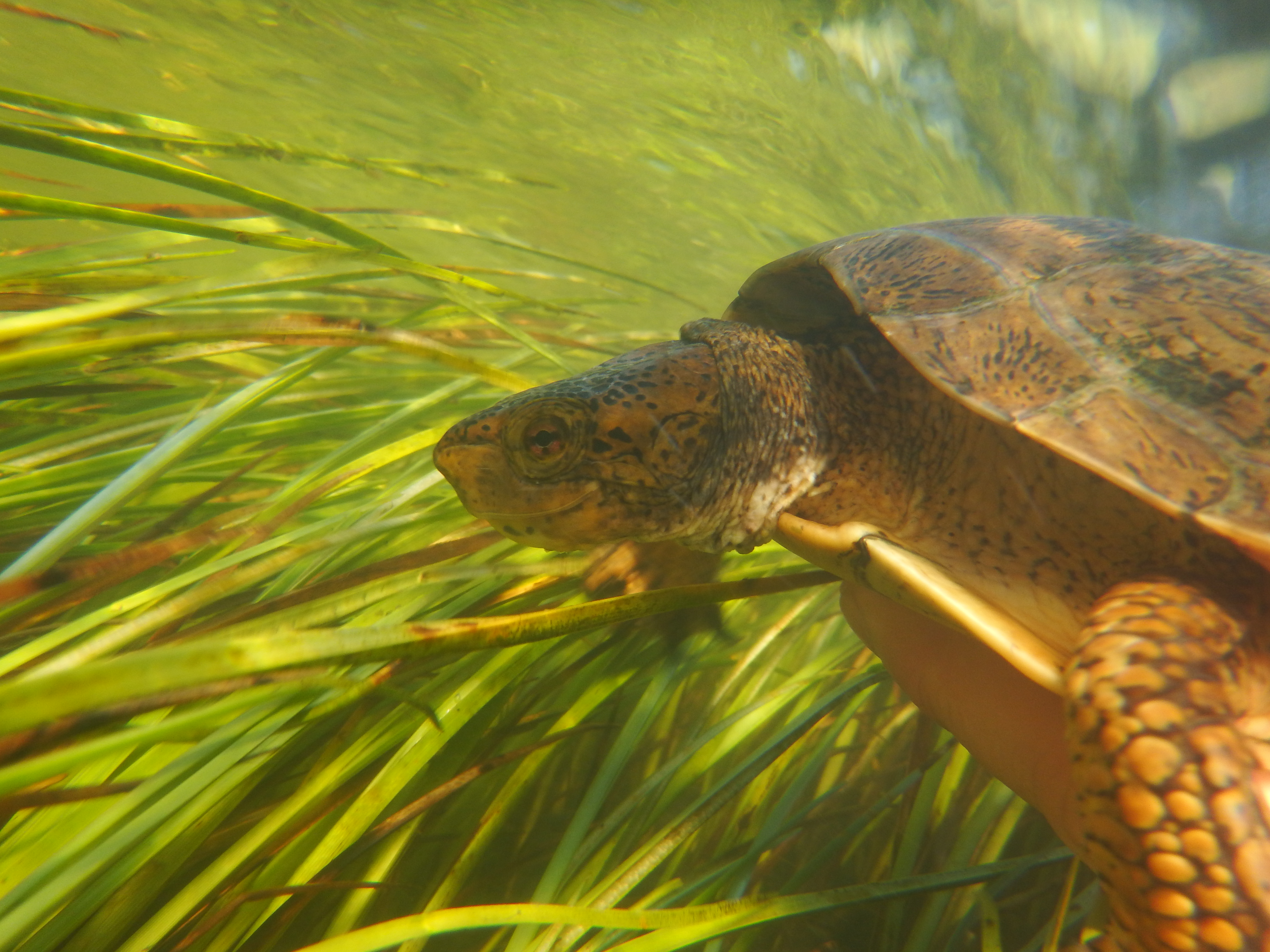 Western Pond Turtle in Bear Creek